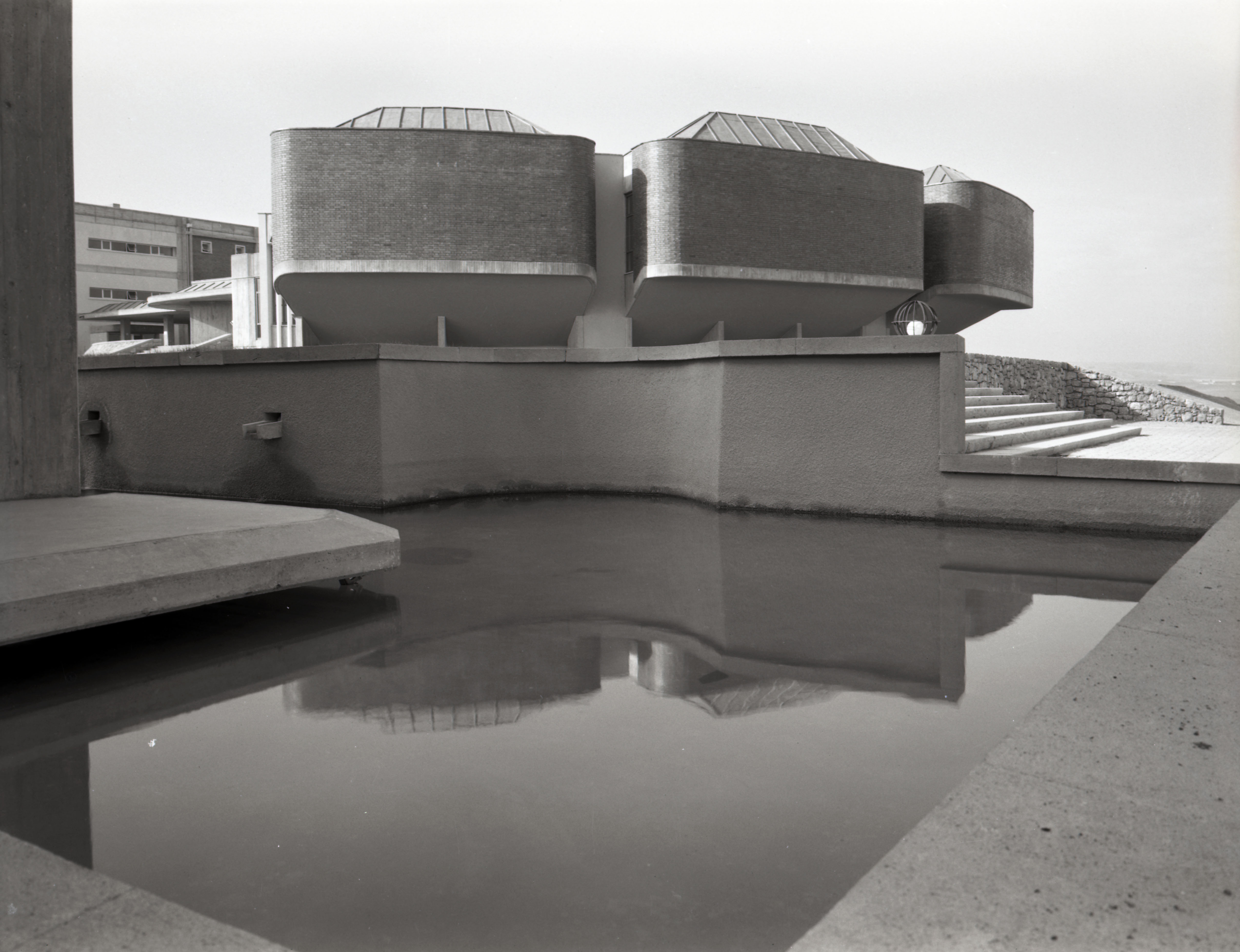 Three parted lecture hall, rear facade, 1961-1980 SALT Research, Altuğ-Behruz Çinici Archive Üçlü amfi, arka cephe, 1961-1980 SALT Araştırma, Altuğ-Behruz Çinici Arşivi